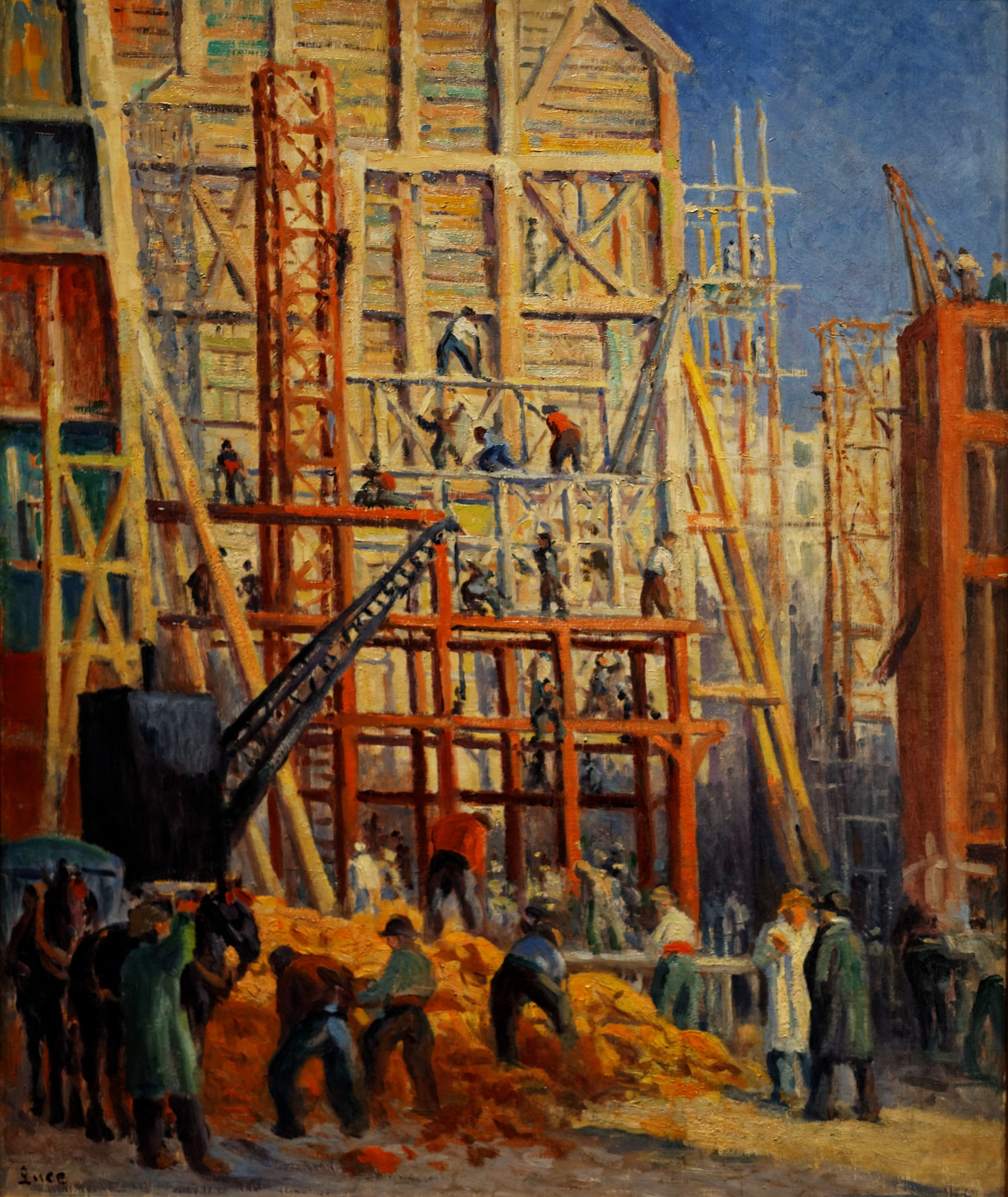 Neo-impressionist painting depicting a construction site.